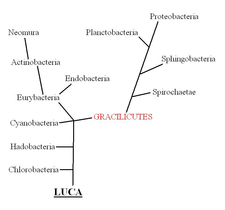 Cavalier-Smith's version of the tree of life, showing the subgroups of the clade Gracilicutes.